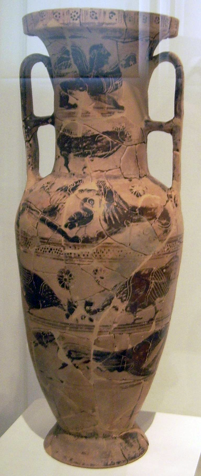 Attic black-figure Loutrophoros-Amphora by the Anagyrus Painter; Sirens and wild Animals; found at the tumuli cemetary of Anagyrus; about 600/575 BC.; National Archeological Museum Athens (19170)